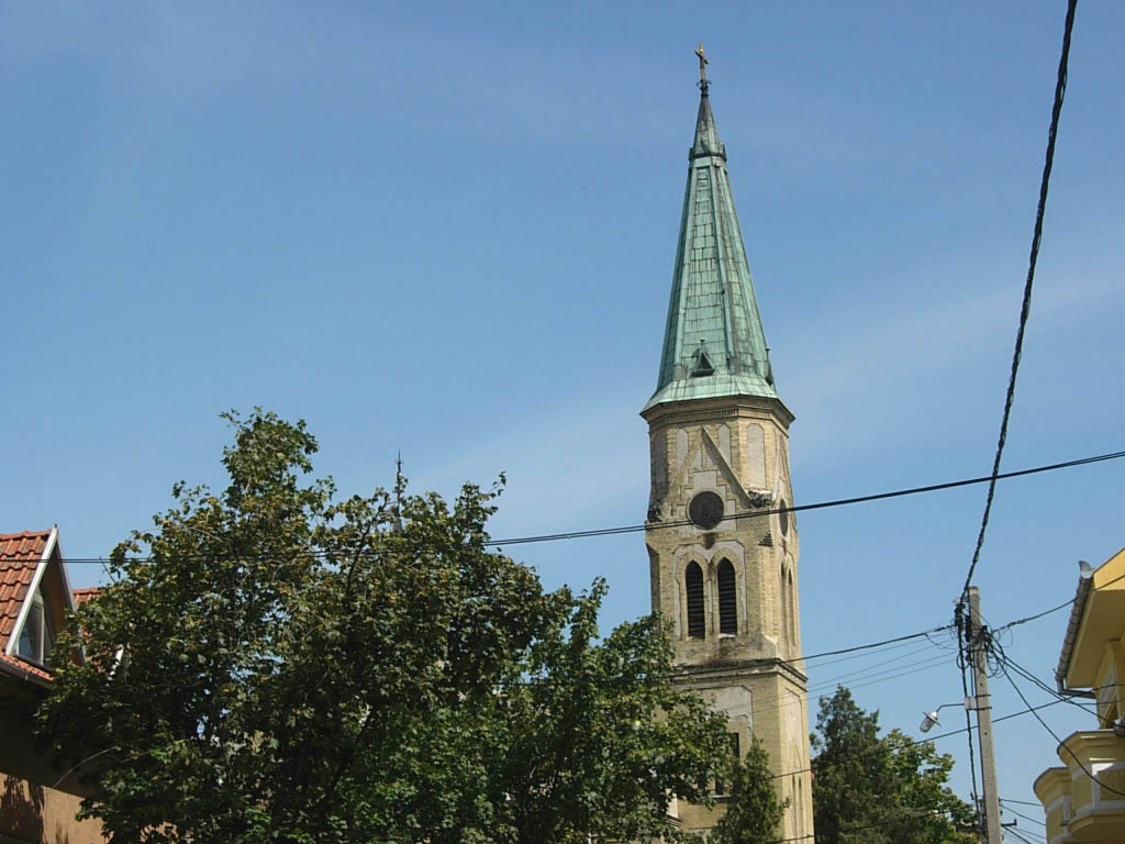 The Evangelical church in Pančevo.